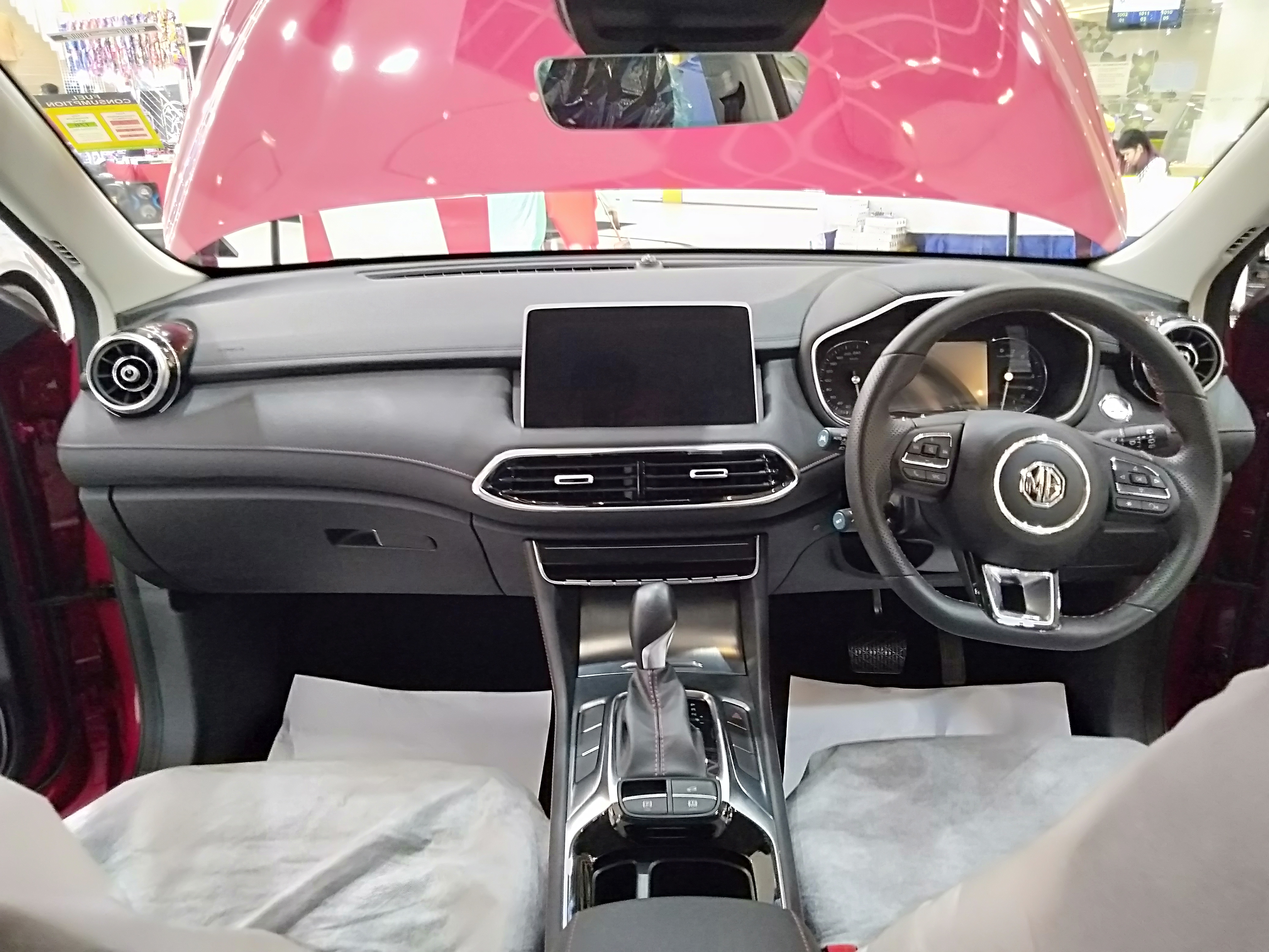 2020 MG HS 1.5 COM interior view. Photographed at Rimba Point Shopping Centre, Rimba, Brunei